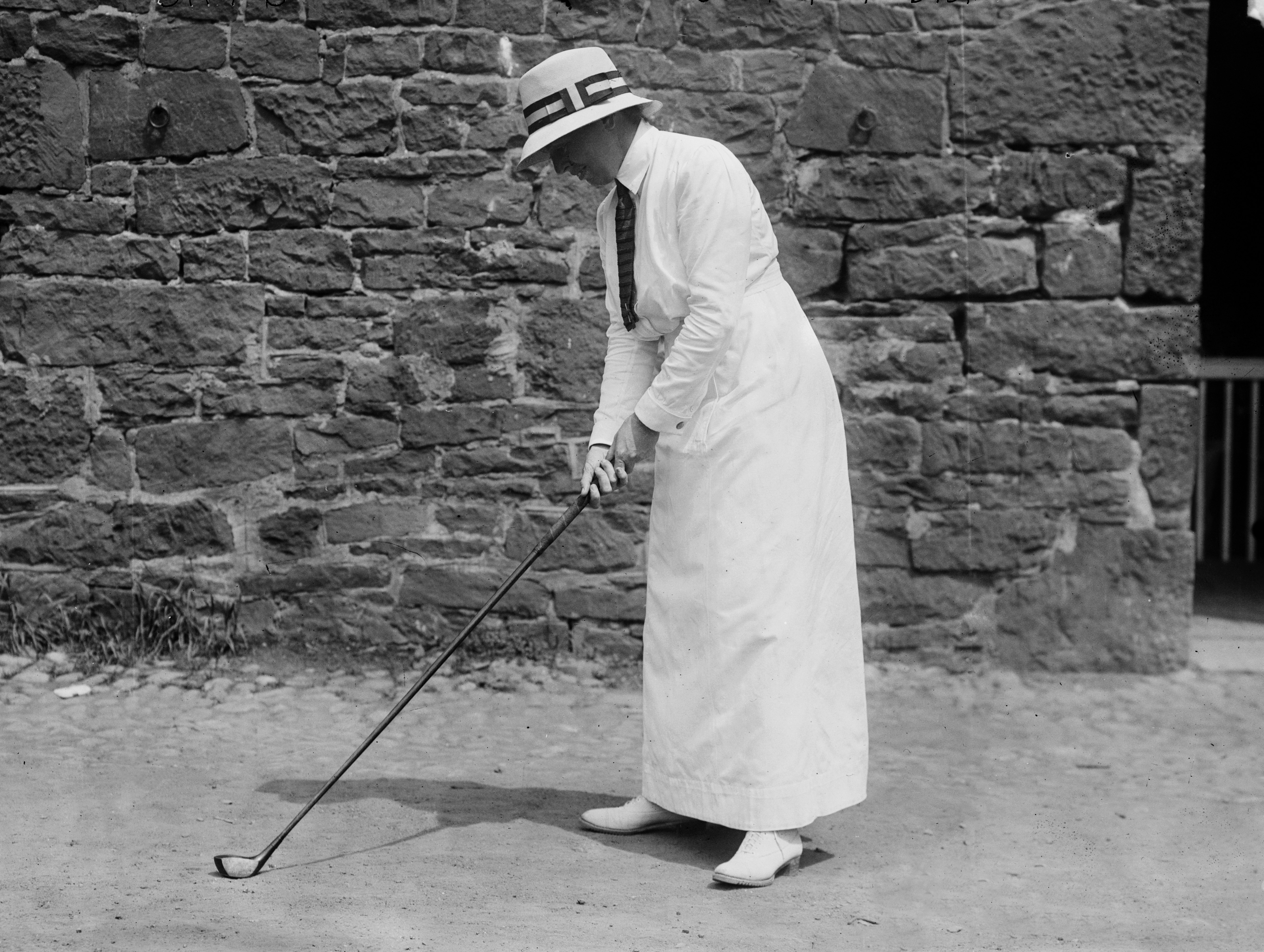 Summary: Photograph shows American amateur golfer Georgianna Millington Bishop (1878-1971). (Source: Flickr Commons project, 2011)